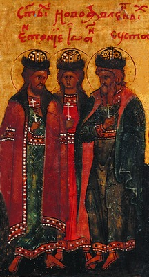 Anthony, John, and Eustathios of Vilno